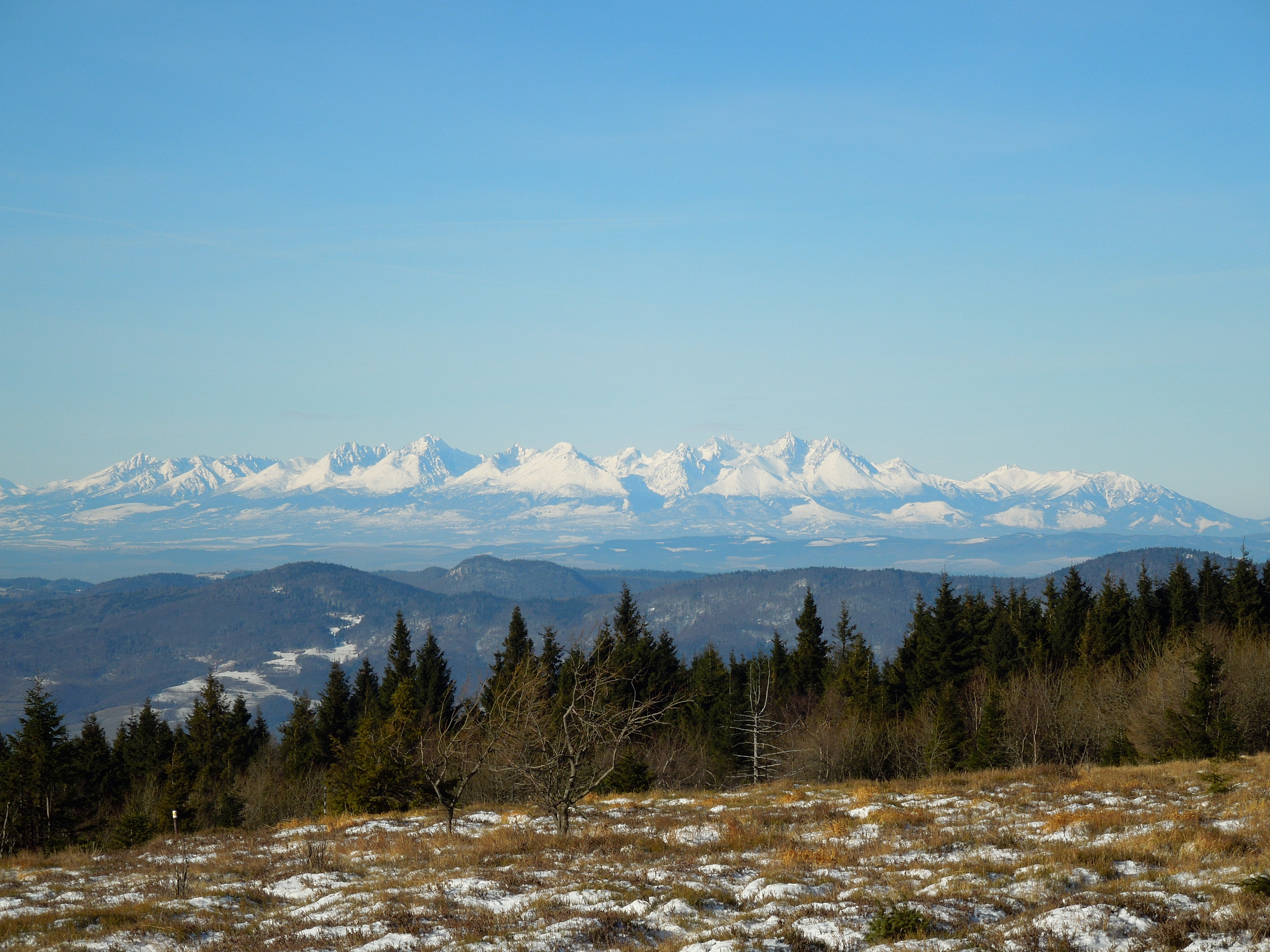 View of the Tatras from Kojšovská hoľa